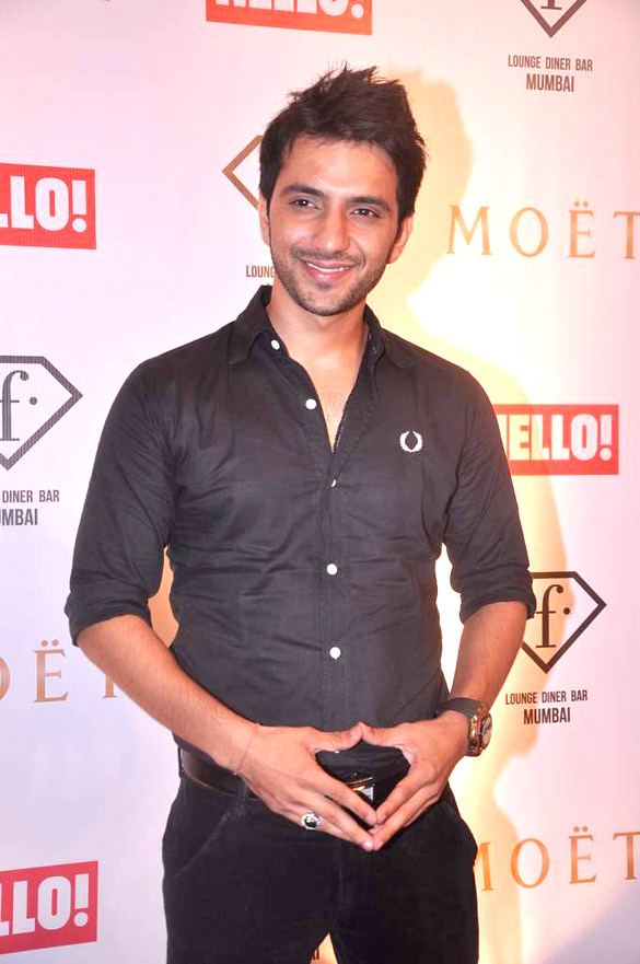 Ali Merchant graces the Moet N Chandon bash at F bar